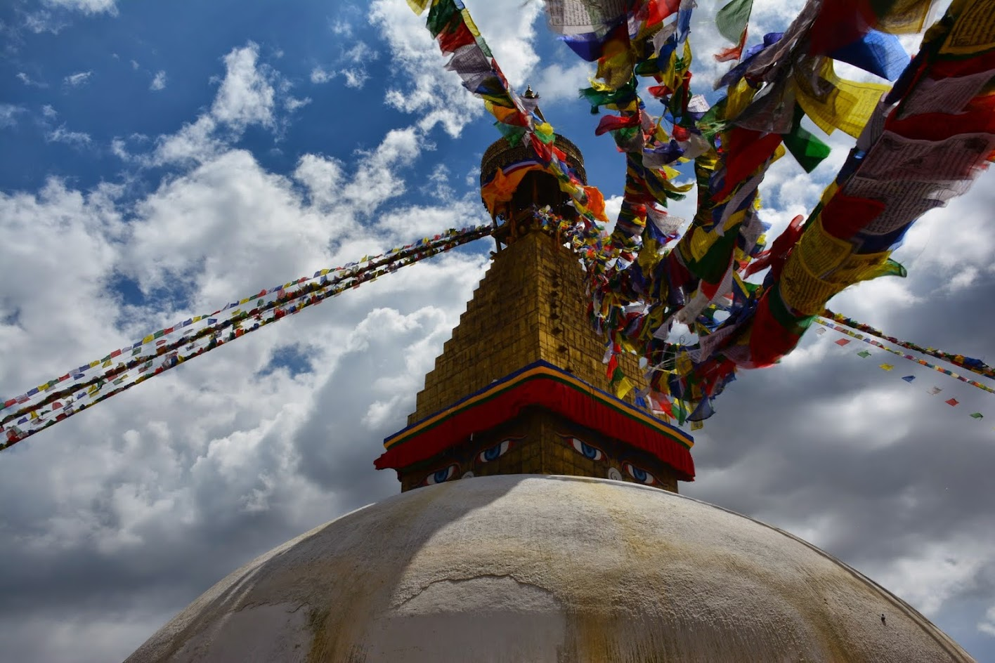 Flags Above Bodnath Stupa